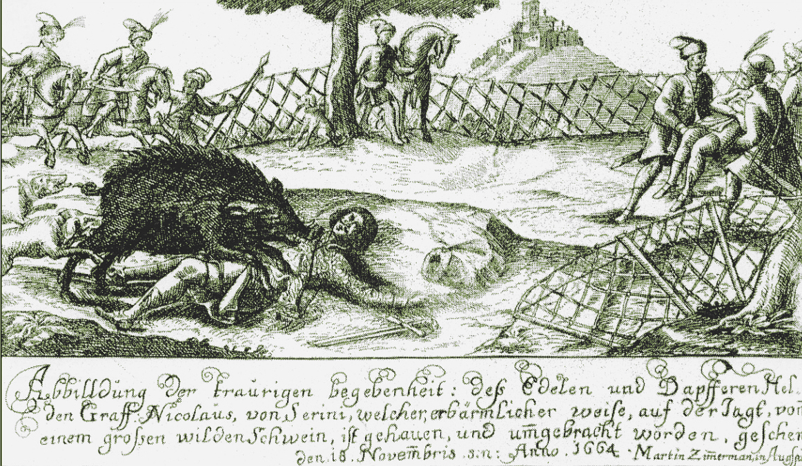 The death of Nikola Zrinski in 1664 near Čakovec